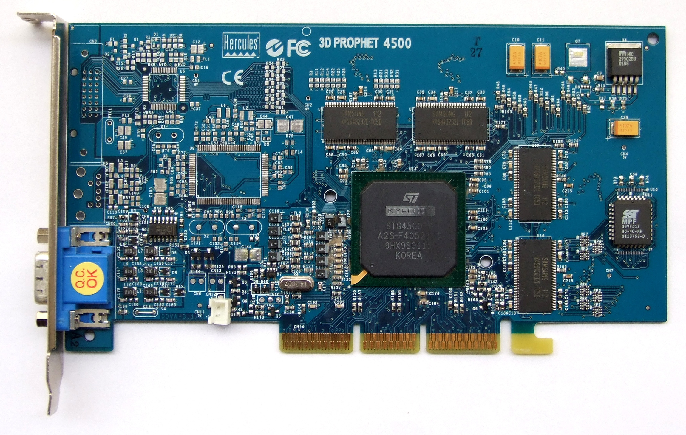 Hercules 3D Prophet 4500 with Kyro II and without cooler.